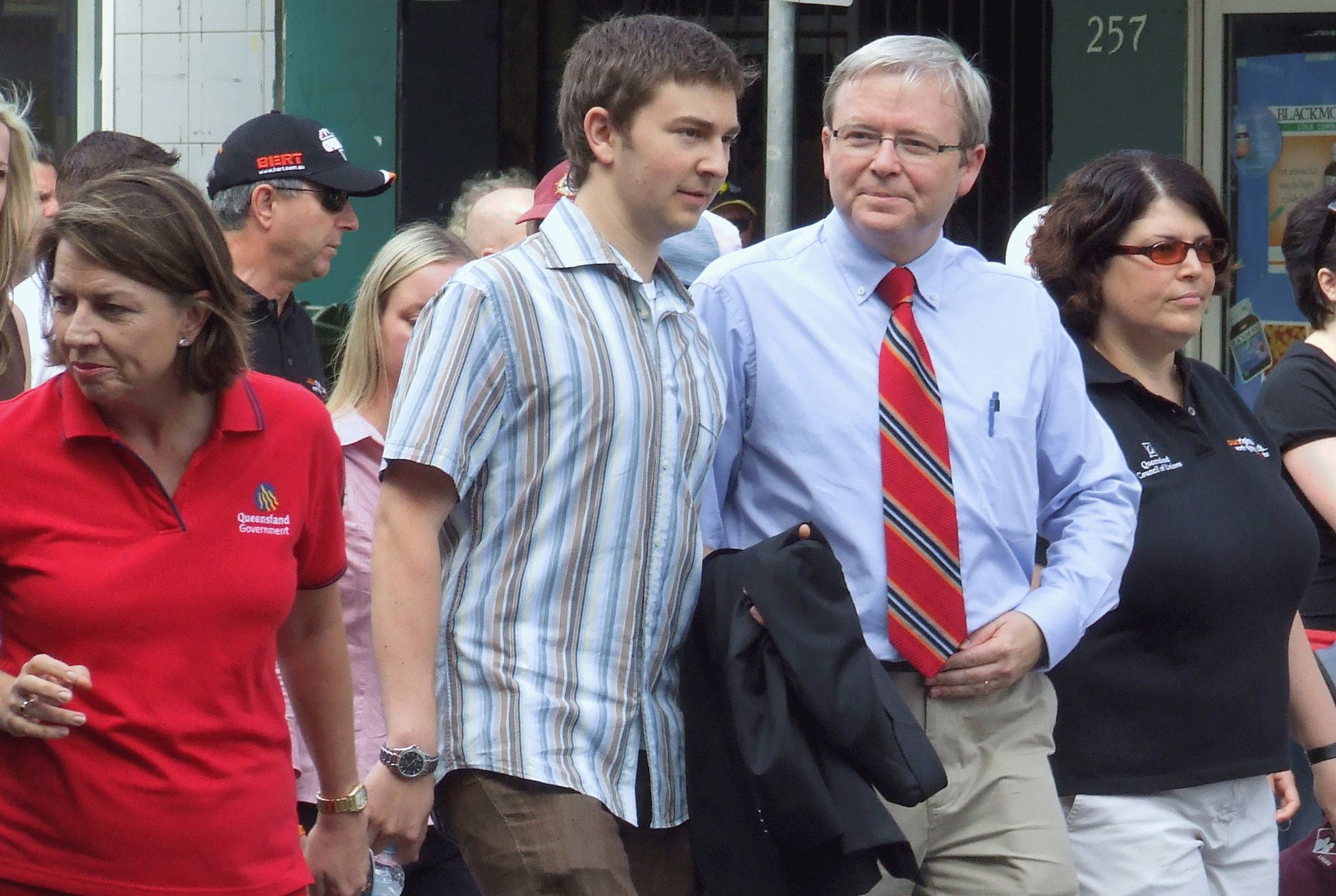 From left to right : Premier of Queensland Anna Bligh, Nicholas Rudd, eldest son (21) of the next person: federal Labor leader Kevin Rudd, and Brisbane Central MP Grace Grace at Labour Day on 7 May 2007, Fortitude Valley and Bowen Hills, Brisbane, Queensland, Australia.